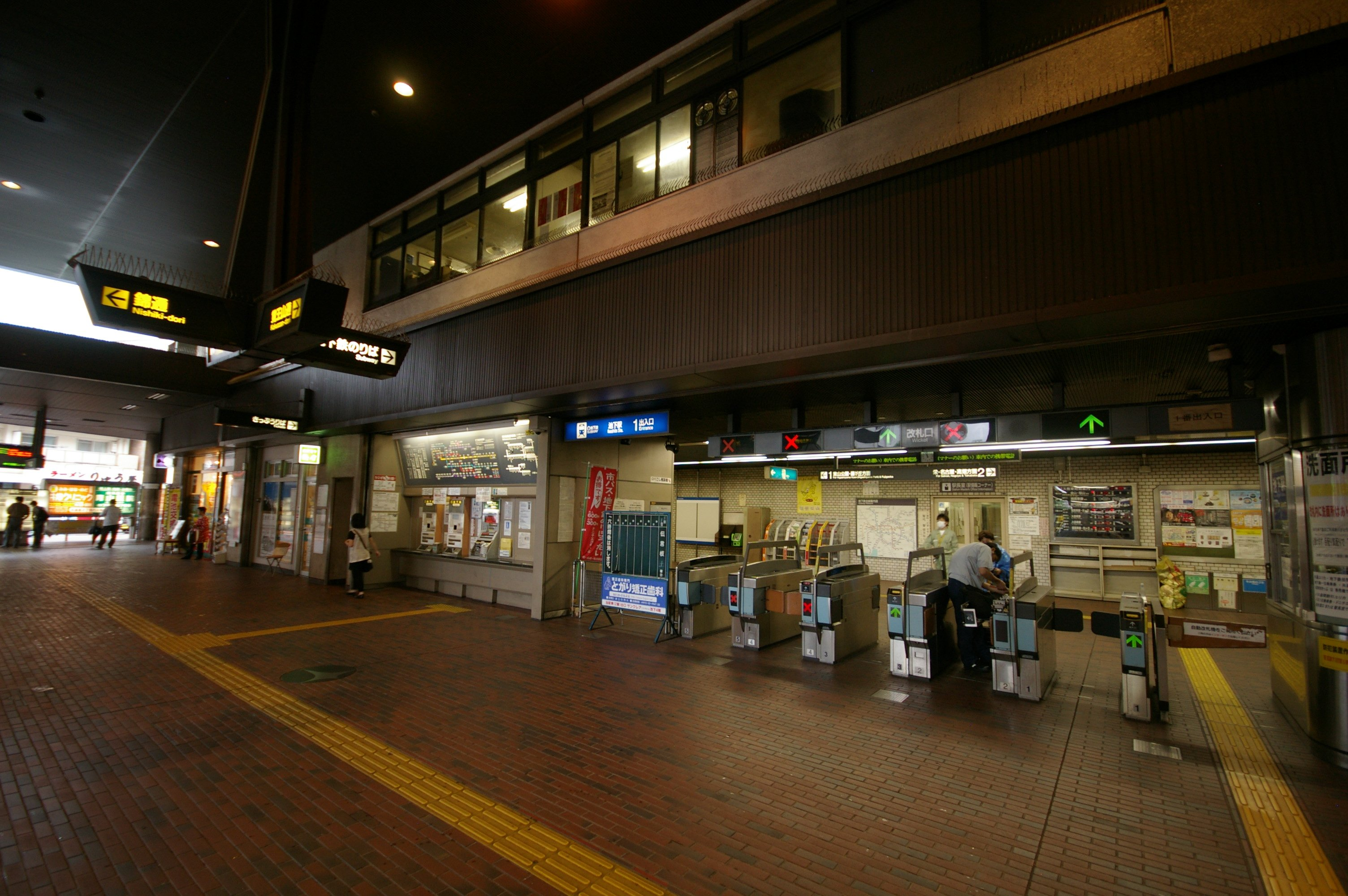 Entrance to Nagoya Subway Ikeshita Station